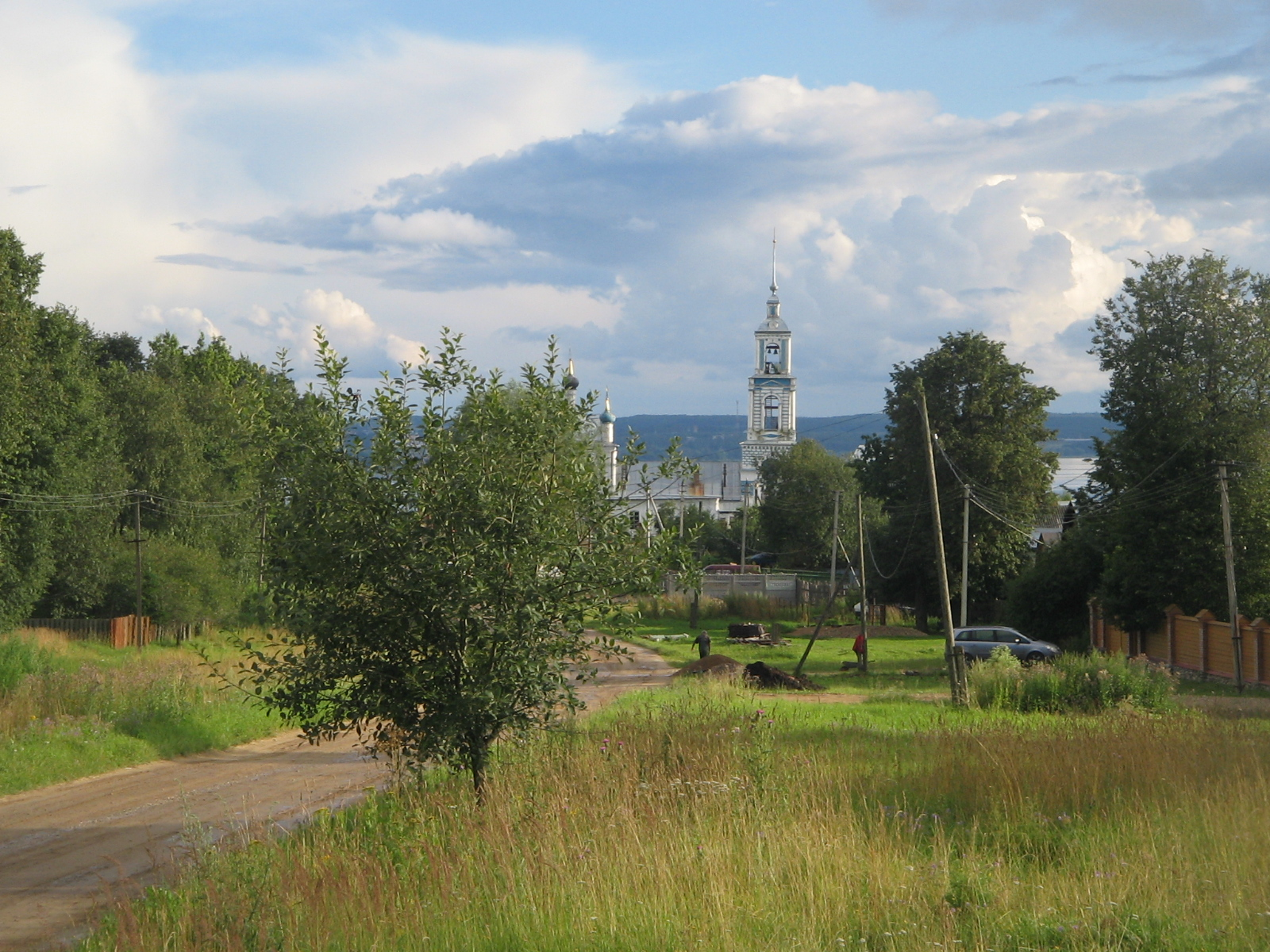 Gorodische (Yaroslav area)